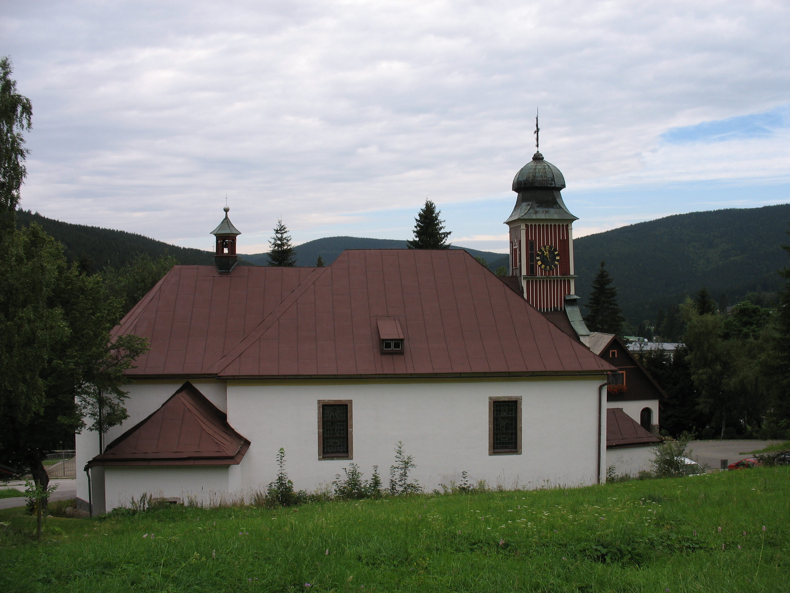 Špindlerův Mlýn's church st. Peter and Paul